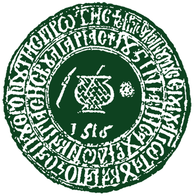 Seal of Ohrid Archbishopric Museum 1516